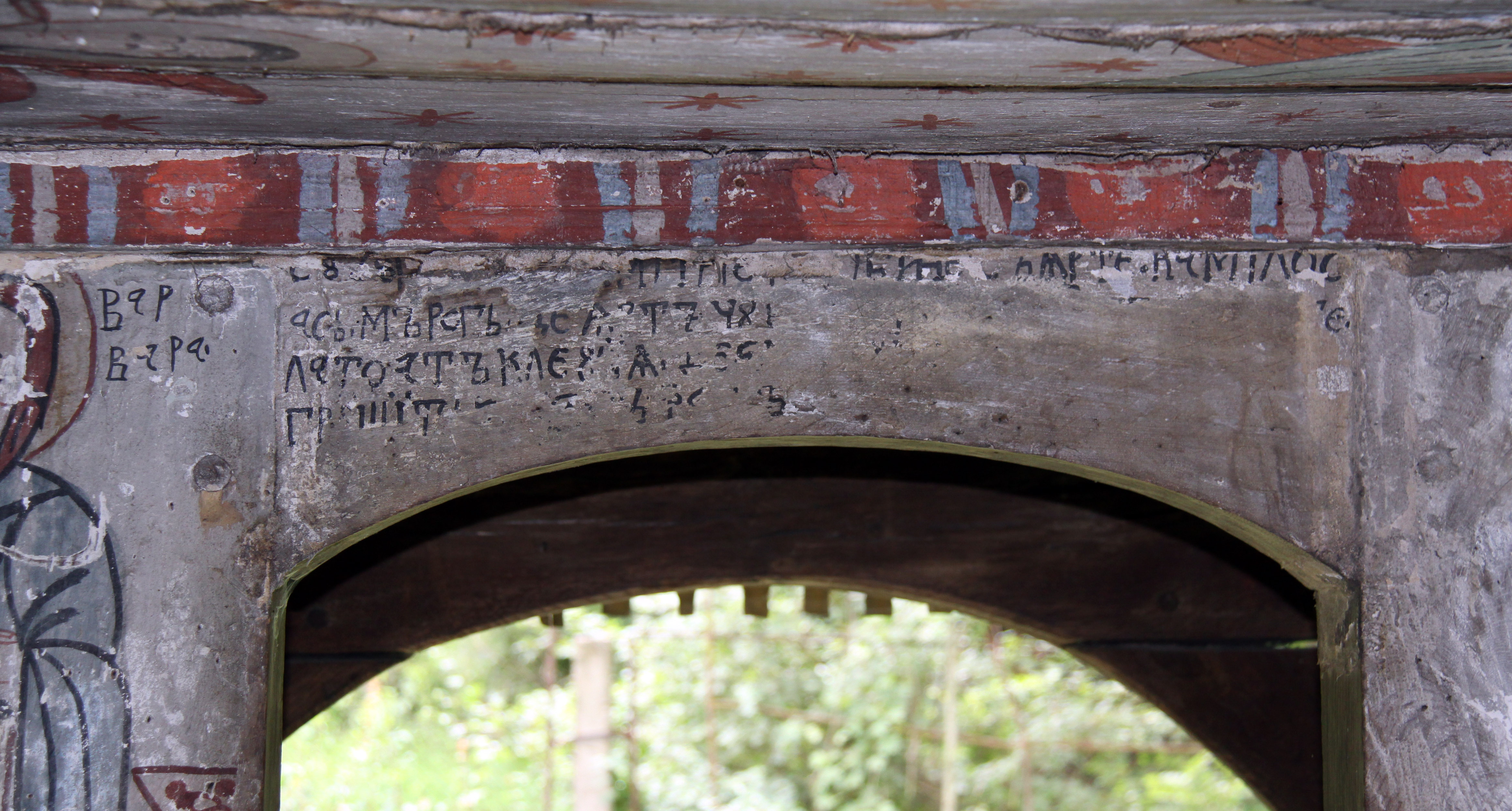 Petrindu, Sălaj: wooden church in The Ethnographic Museum in Cluj Napoca, Romania. Inscription inside the narthex.